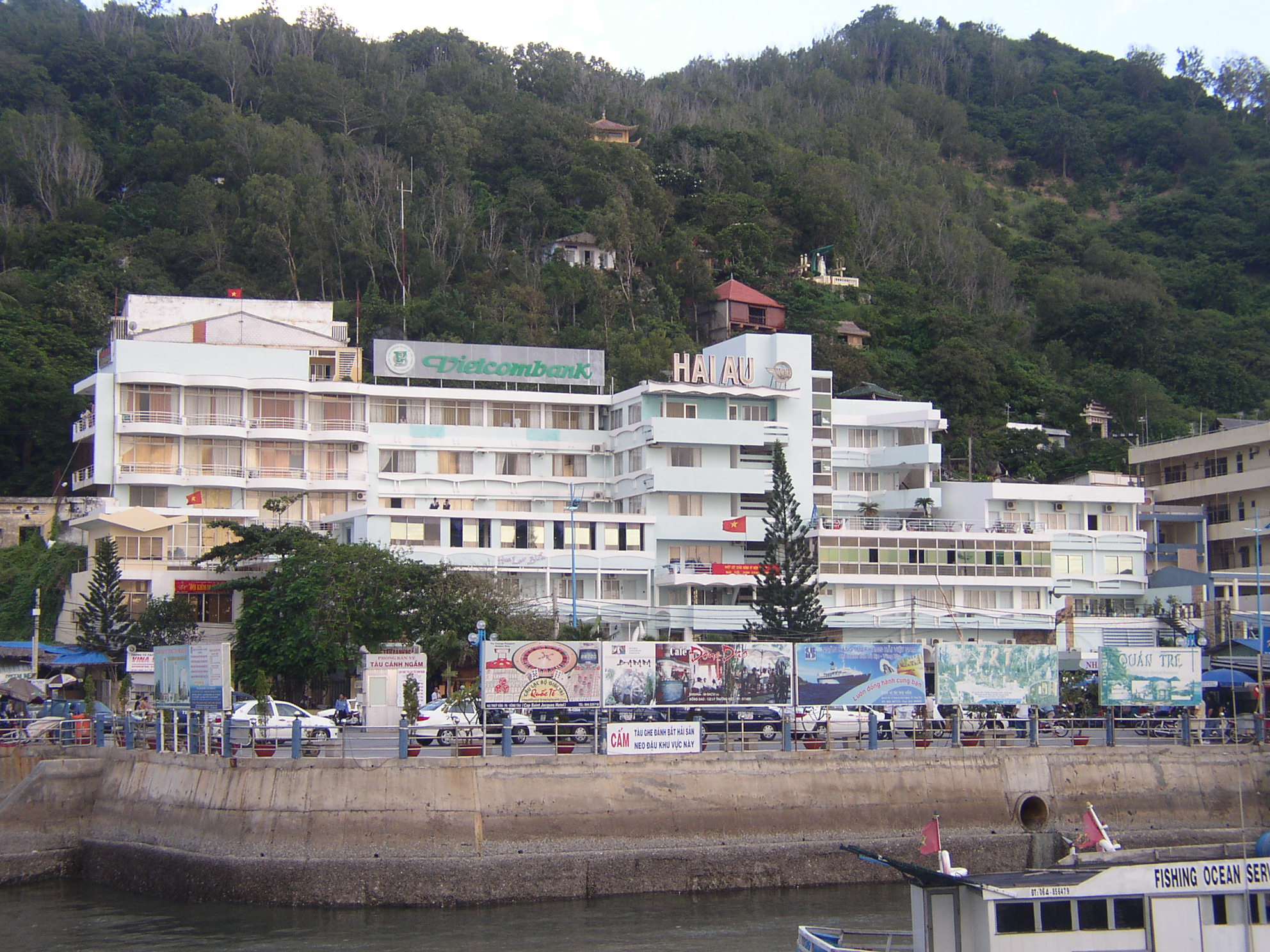 Hai Au Hotel, Vung Tau